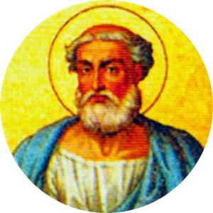 Portait of Pope Sylvester I in the Basilica of Saint Paul Outside the Walls, Rome